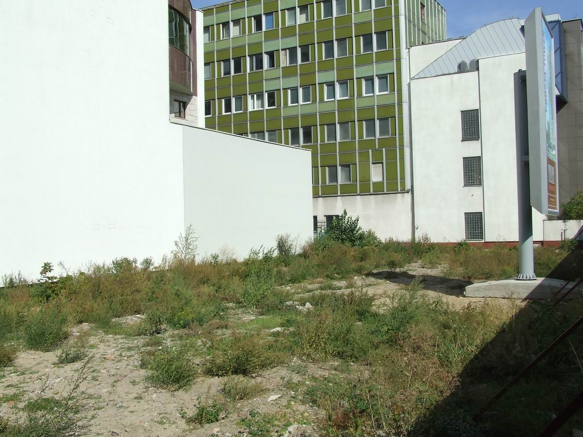 Prosta Tower in Warsaw, place of building